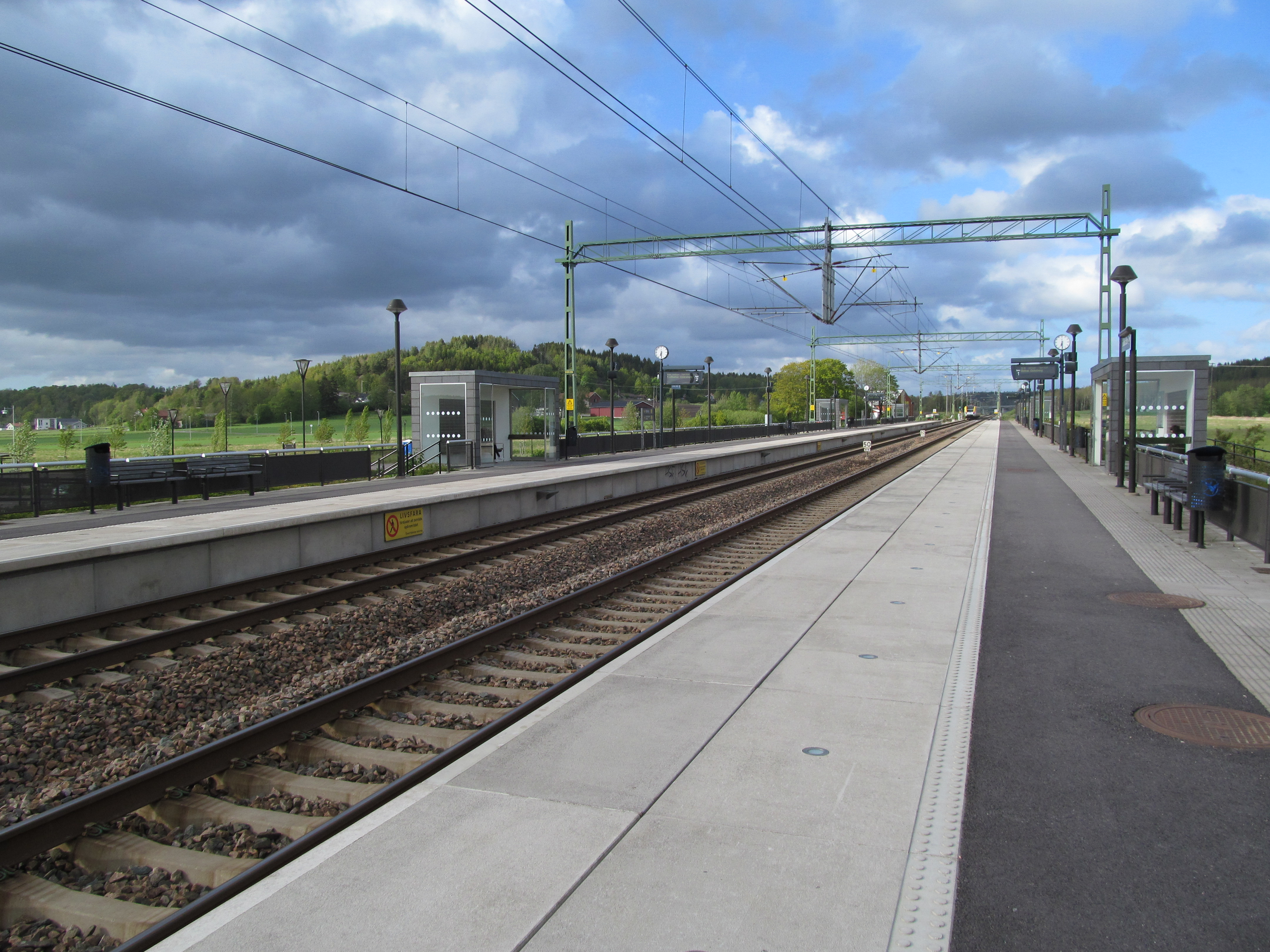 Railway station Lödöse södra between Lödöse and Alvhem in Lilla Edet municipality, Sweden. Served by regional trains.